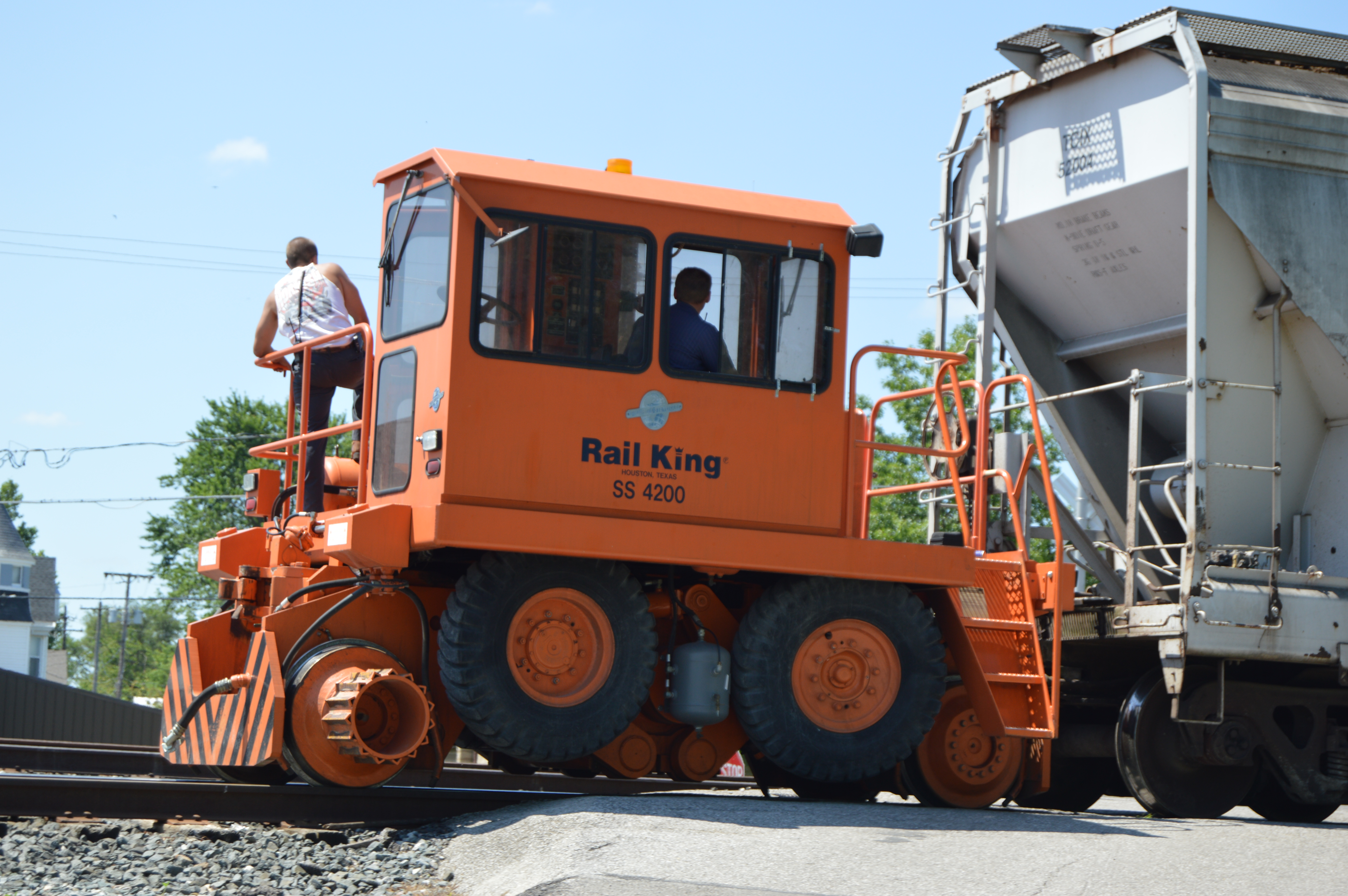 A Rail King rail car mover shunts a few grain hoppers across the Marion Street rail crossing in Hamler, Ohio, United States.